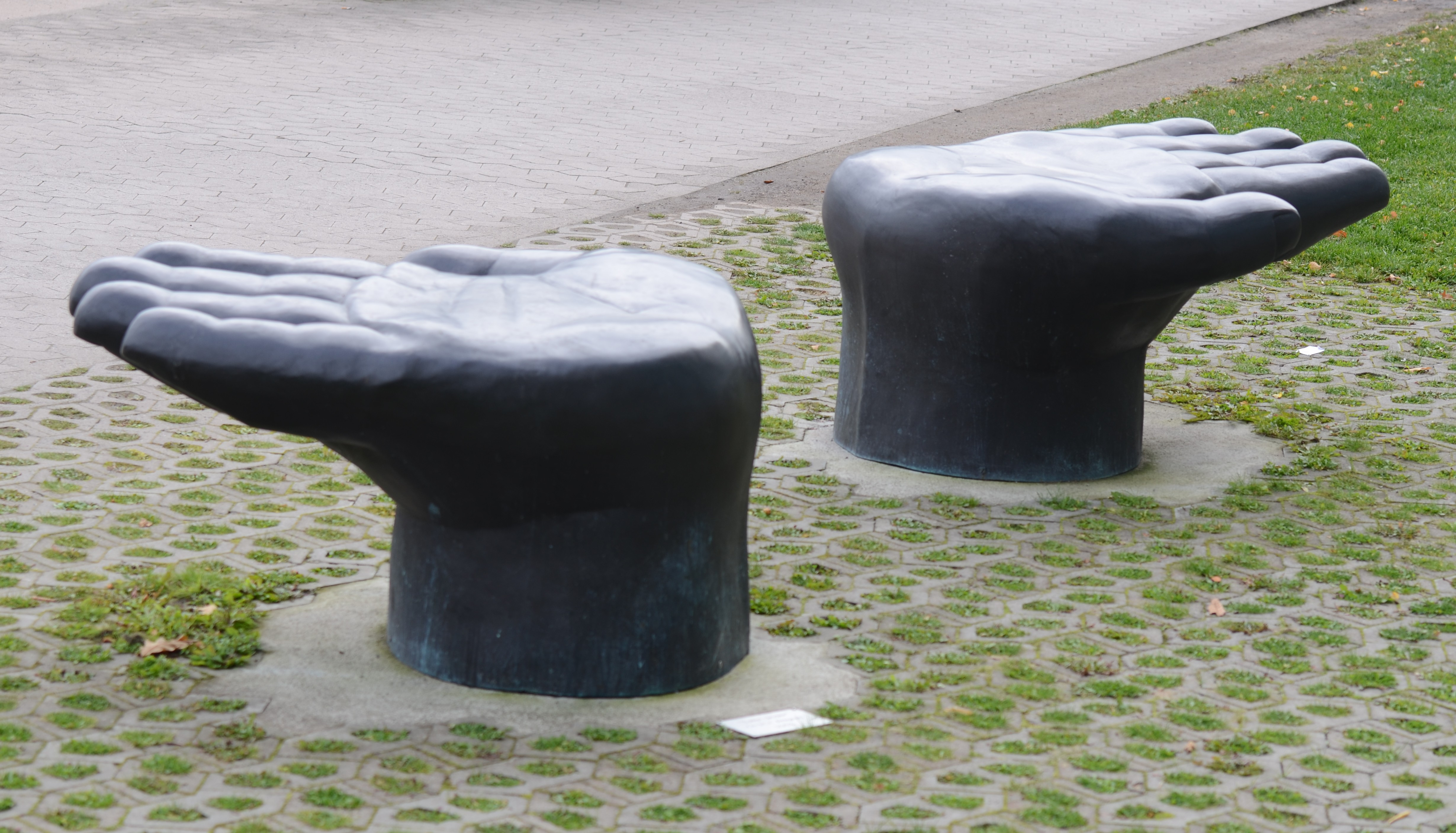 Själsfränder by Kerstin Ahlgren, Marievik, Liljeholmen, Stockholm